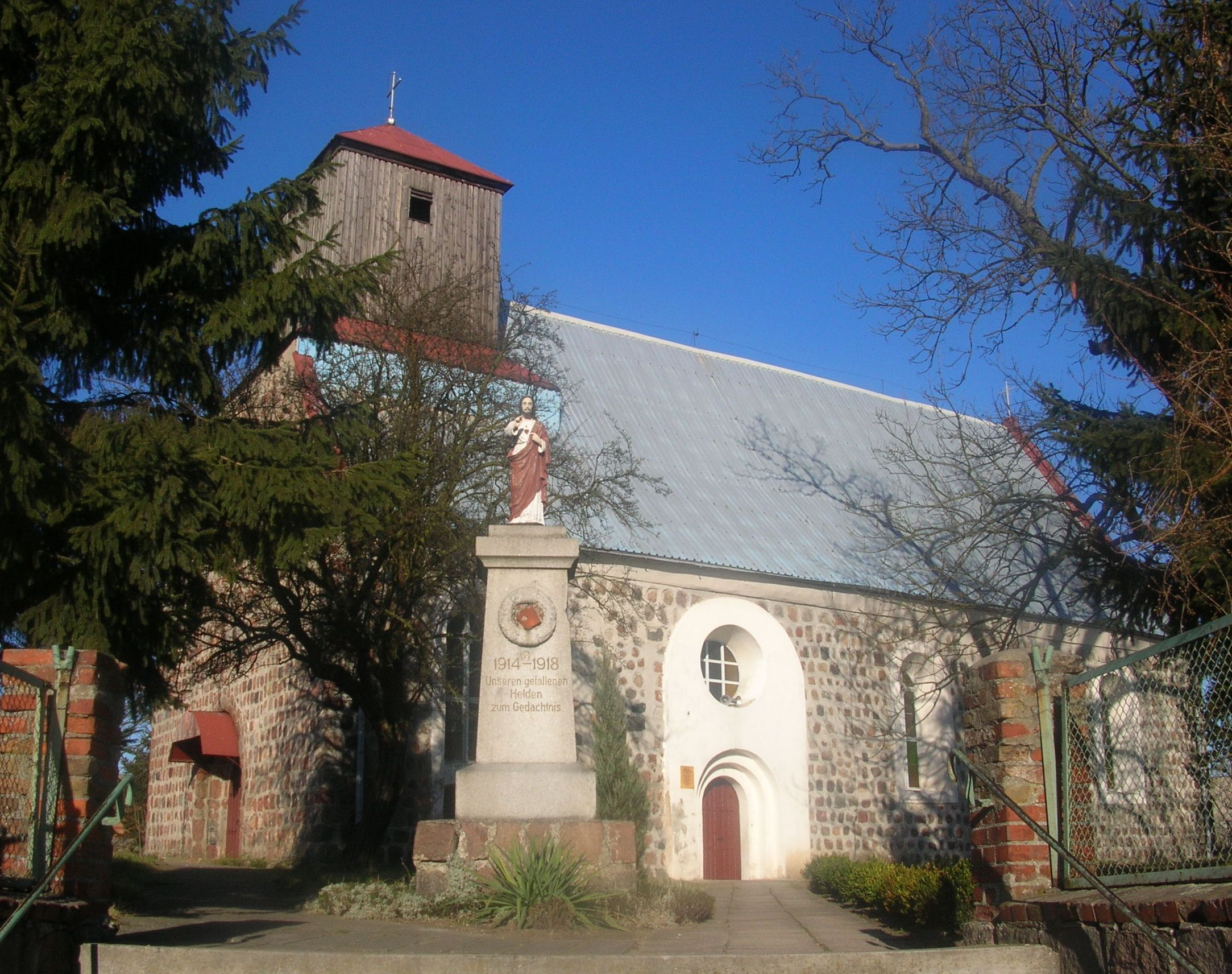 Church of Christ the King in Lubanowo near Banie. In the foreground a monument commemorating the villagers who died during World War I with the figure of Christ